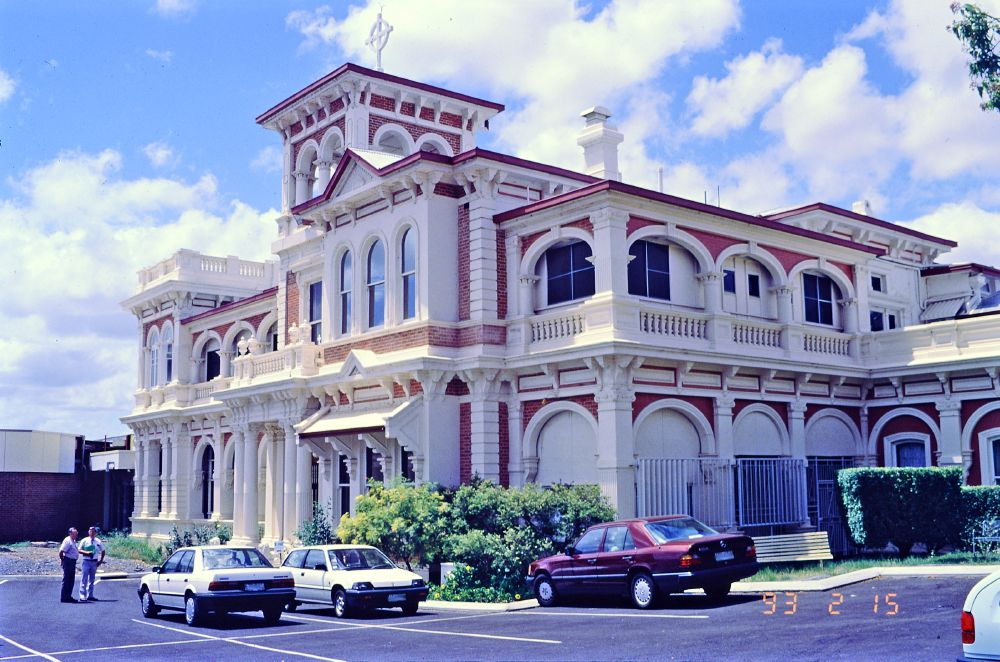 Kenmore House, Mater Misericordiae Hospital (1993)